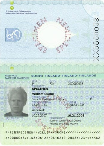 Voided Specimen of a current type Finnish passport. Image of passport's front cover and bearer’s details page. This type of passport is issued at Finnish Embassies and Diplomatic Representations abroad and is limited in validity to one year. Passports issued within Finland are valid for five years. This passport looks very similar to the type issued within Finland. Unlike current passports issued in Finland, passports issued abroad do not contain a contactless chip. The image of the bearer shown in this passport is a photo of myself.